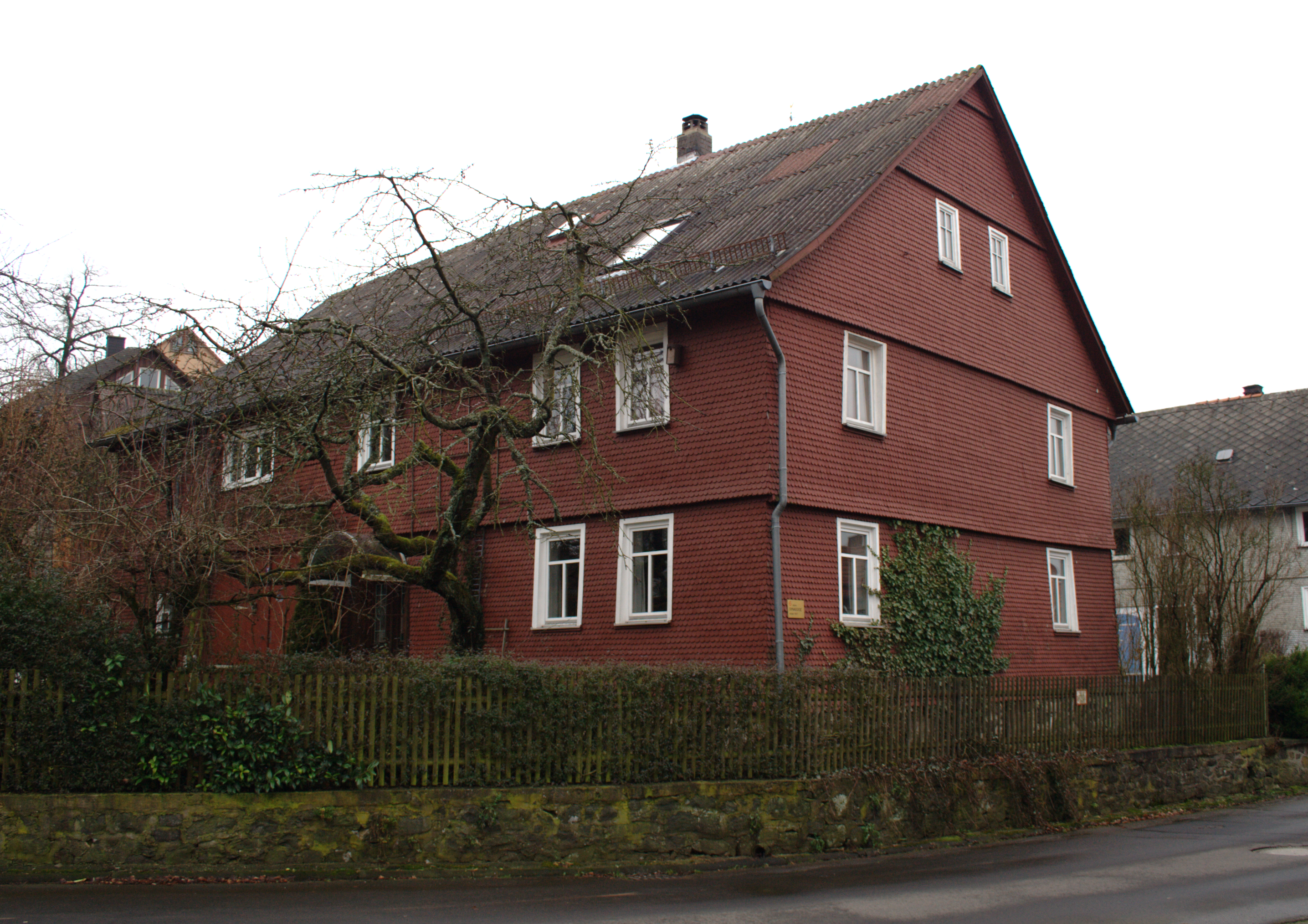 Former synagogue in Ulrichstein, Herrengartenstrasse 7, Hesse, Germany